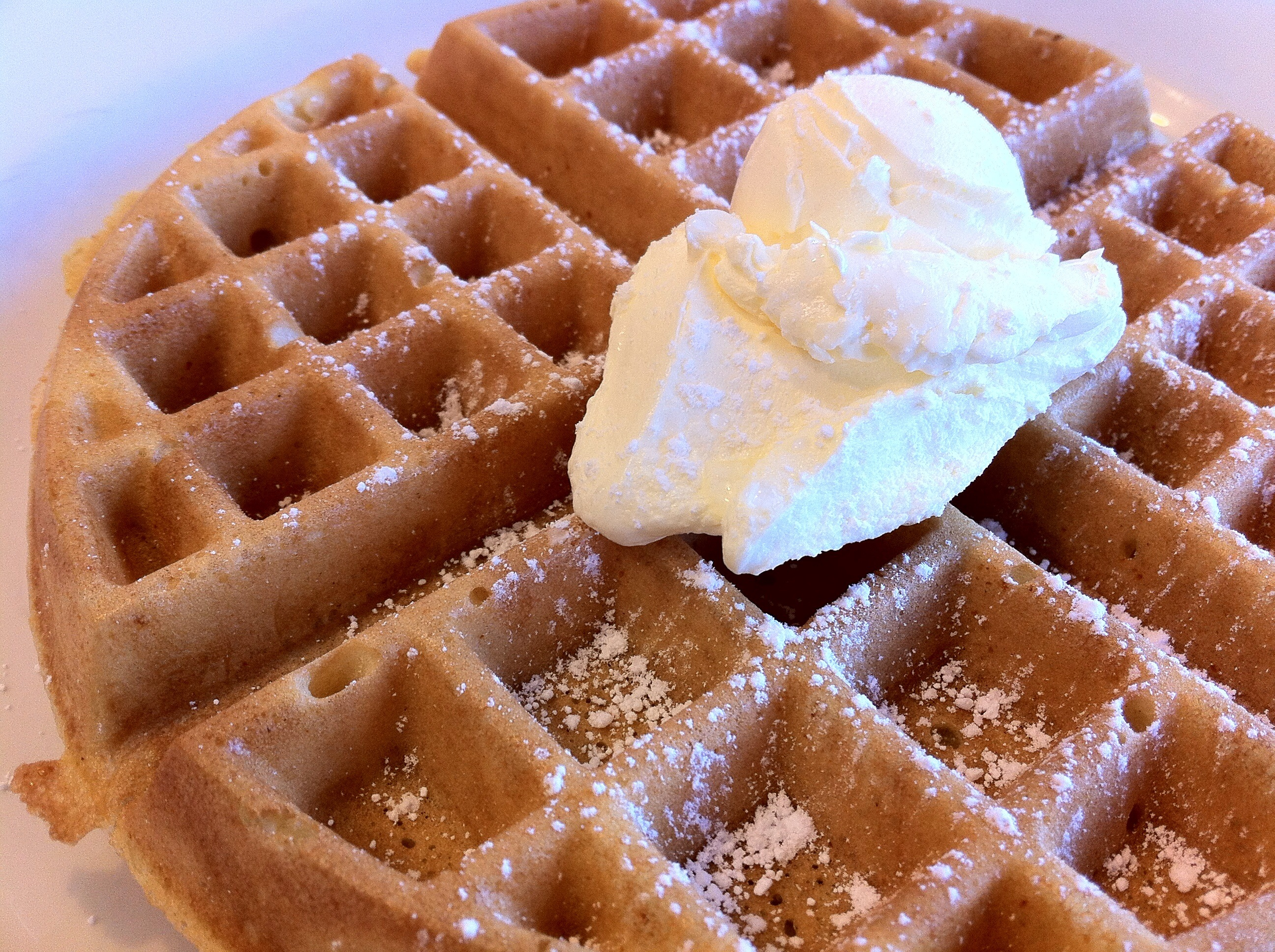 Waffle with whipped cream